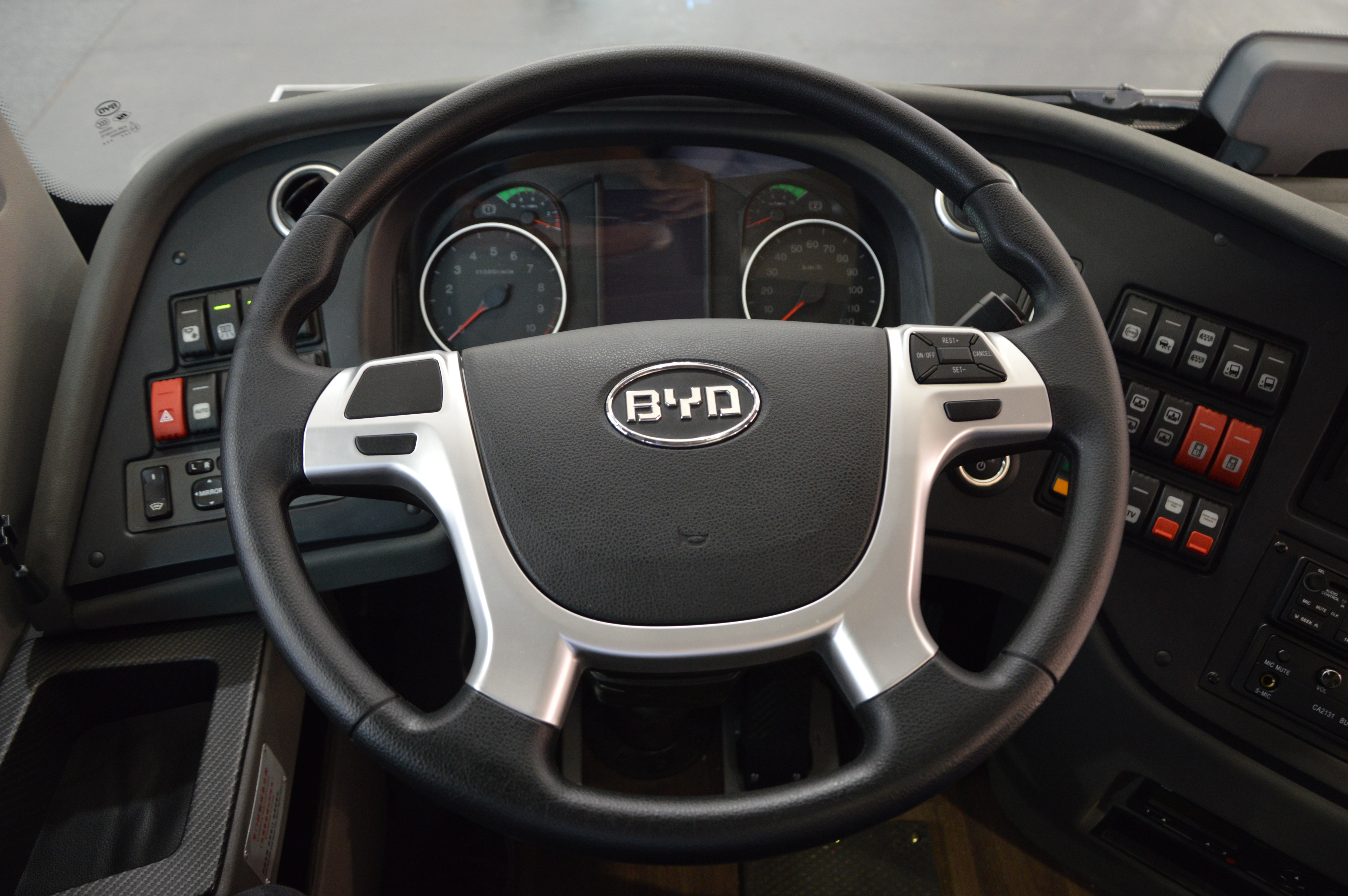 BYD C9 coach: The worldwide first long range battery-electric coach. 365 kWh Li-ion iron phosphate battery pack with charging time of less than two hours. Highway speed 62.5 mph (101 km/h).. Photo taken at IAA 2016.